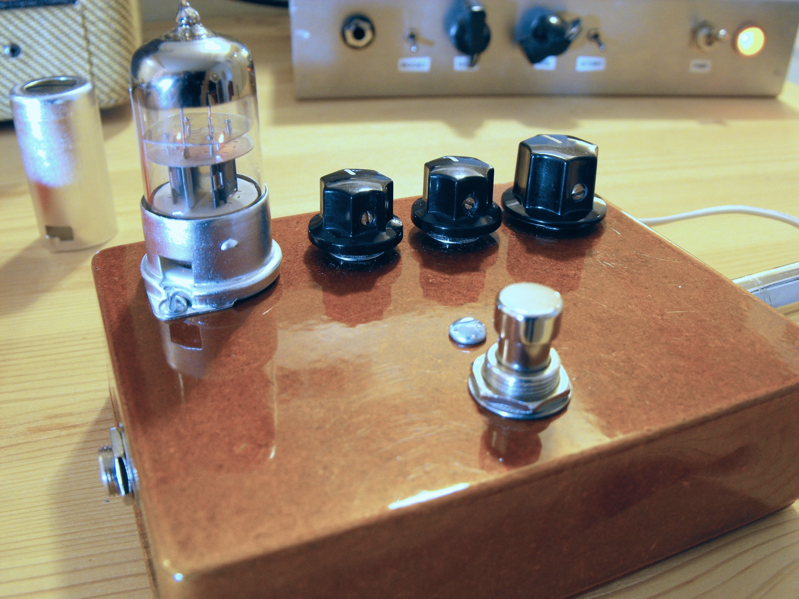 A DIY tube overdrive pedal. "My version of the Matsumin Valve Caster 12AU7 tube overdrive pedal. Here you can see the tube filaments glowing, and the tube does get a little warm powered with 12v DC (although it also worked okay with 9v DC too, but I wouldn't recommend it for the tube life). It sounds good! It's not full-on distortion, just some overdrive and a bunch of boost if you turn up the volume. A little warm, some extra grit, and it does seem to have some touch sensitivity. I like it. The filaments are wired in series using 12v DC."